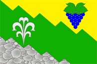 Flag of Nizhnebakanskoe rural settlement, Krasnodar Territory, Russia